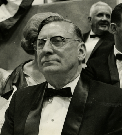 Collection: Shankle, Hugh W., Collection Call Number: PI/COL/1981.0066 System ID: 76242. Link to the catalog From Former Gov. and Mrs. Ross Barnett at Paul Johnson's Inaugural Ball, Jan., '64. View of Governor Ross Barnett and Mrs. Barnett and other attendees. Please see our profile page for information on ordering. Scanned as tiff in 2011/06/01 by MDAH. Credit: Courtesy of the Mississippi Department of Archives and History